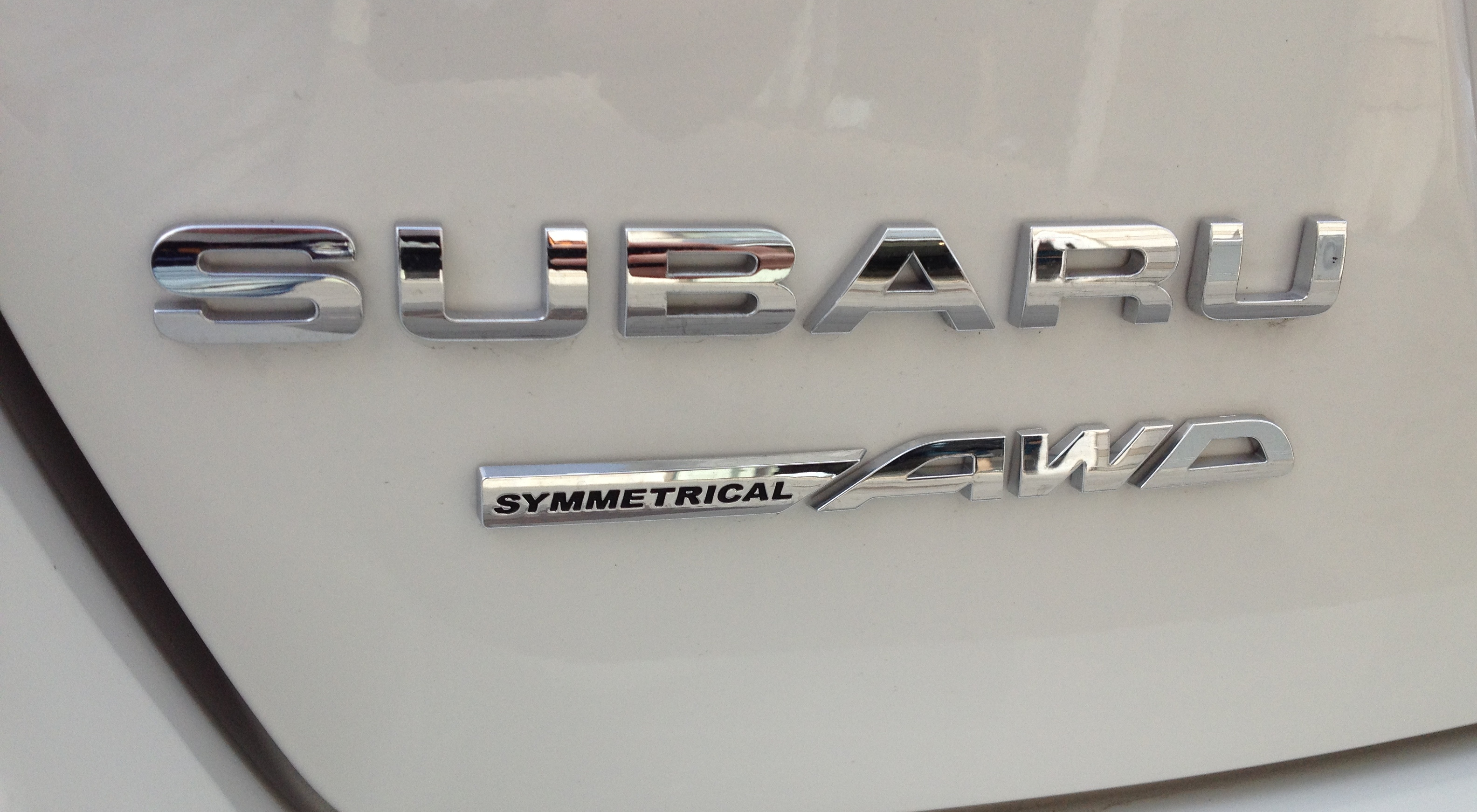 Subaru XV Symmetrical AWD logo